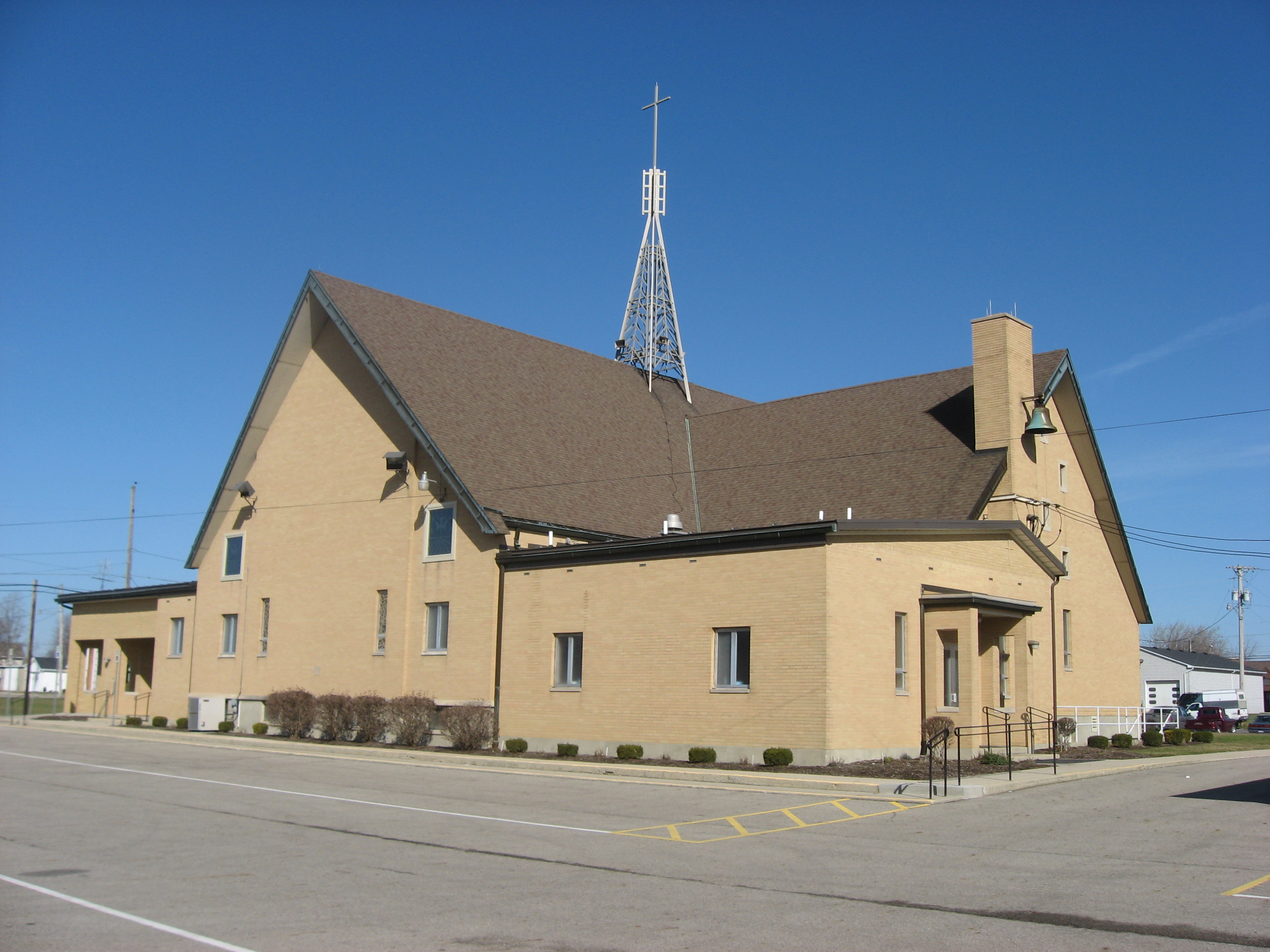 Rear of Precious Blood Catholic Church, located along the eastern side of Roosevelt Street (State Route 716 between Main and Walnut Streets in Chickasaw, Ohio, United States. Built in 1967, it replaced an earlier church built in the style of the massive Catholic churches elsewhere in southeastern Mercer County.